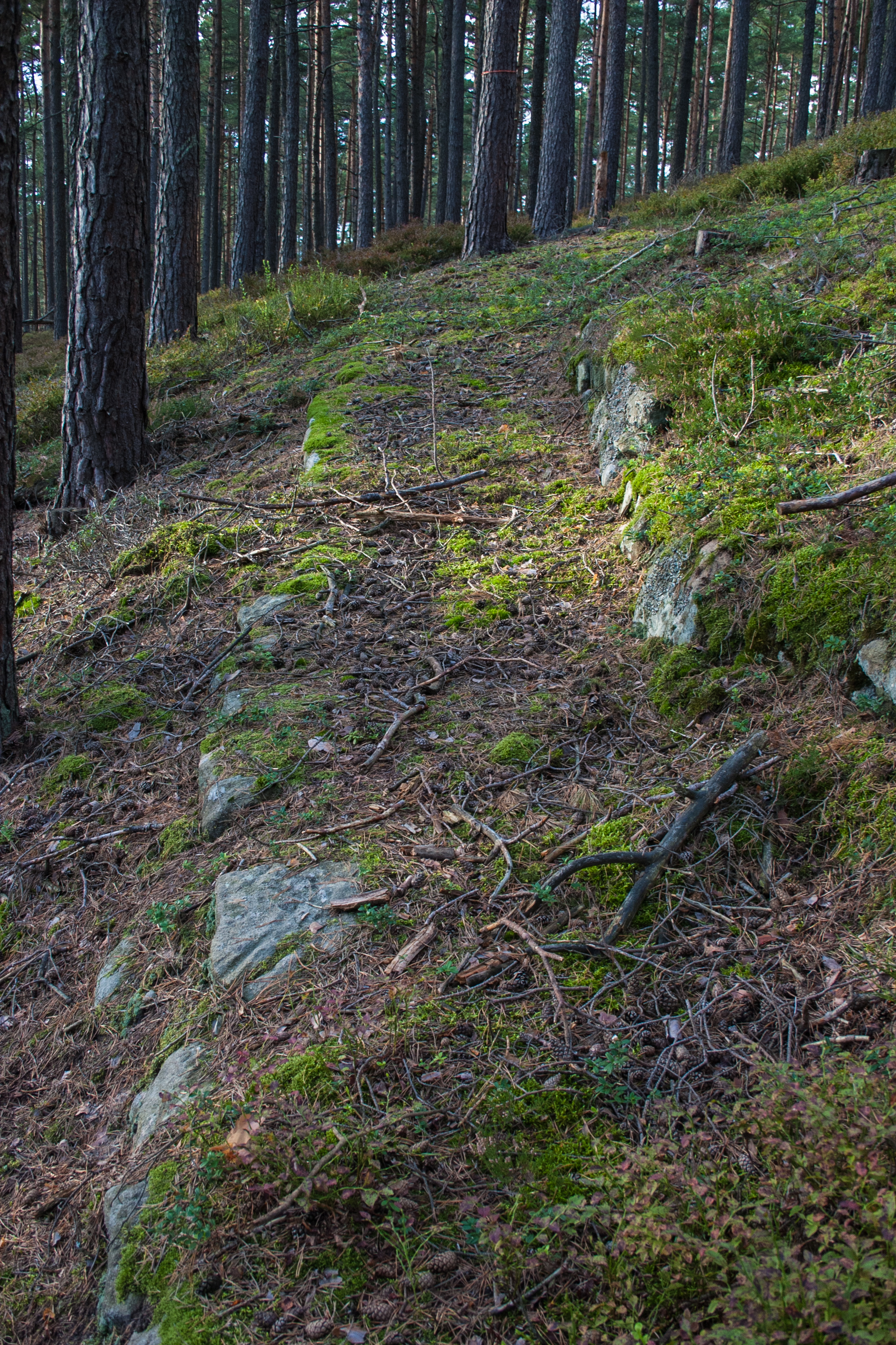 Lost slavic settlement Mirga, Speinshart, district Neustadt an der Waldnaab, Bavaria, Germany